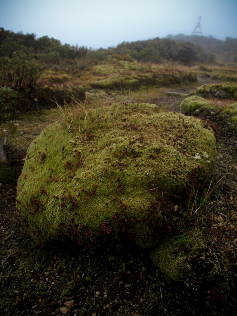 Te Pureora forest, South Waikato District, Waikato, NZ